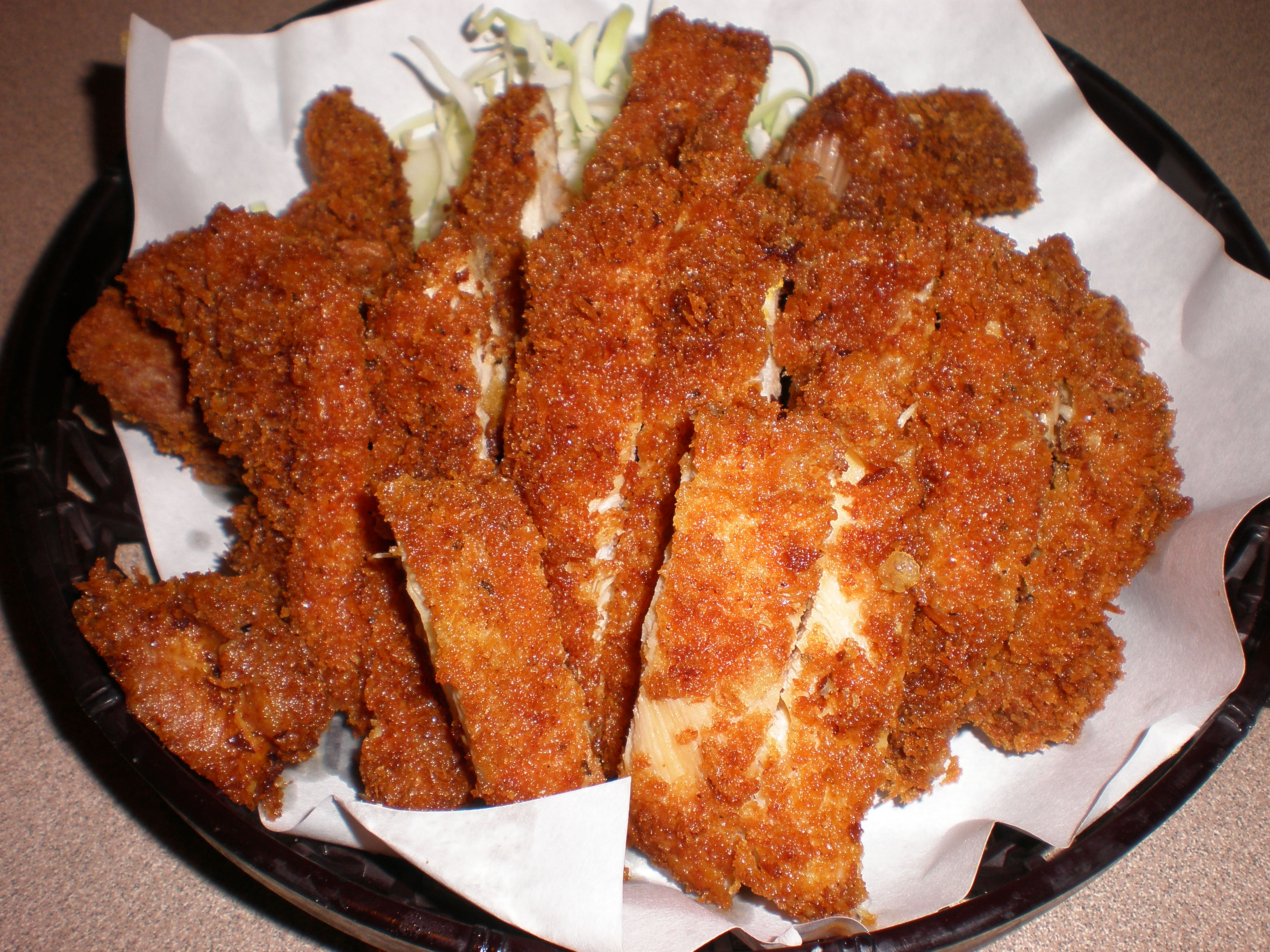 Chicken katsu from Kamameshi House in South San Francisco, California.